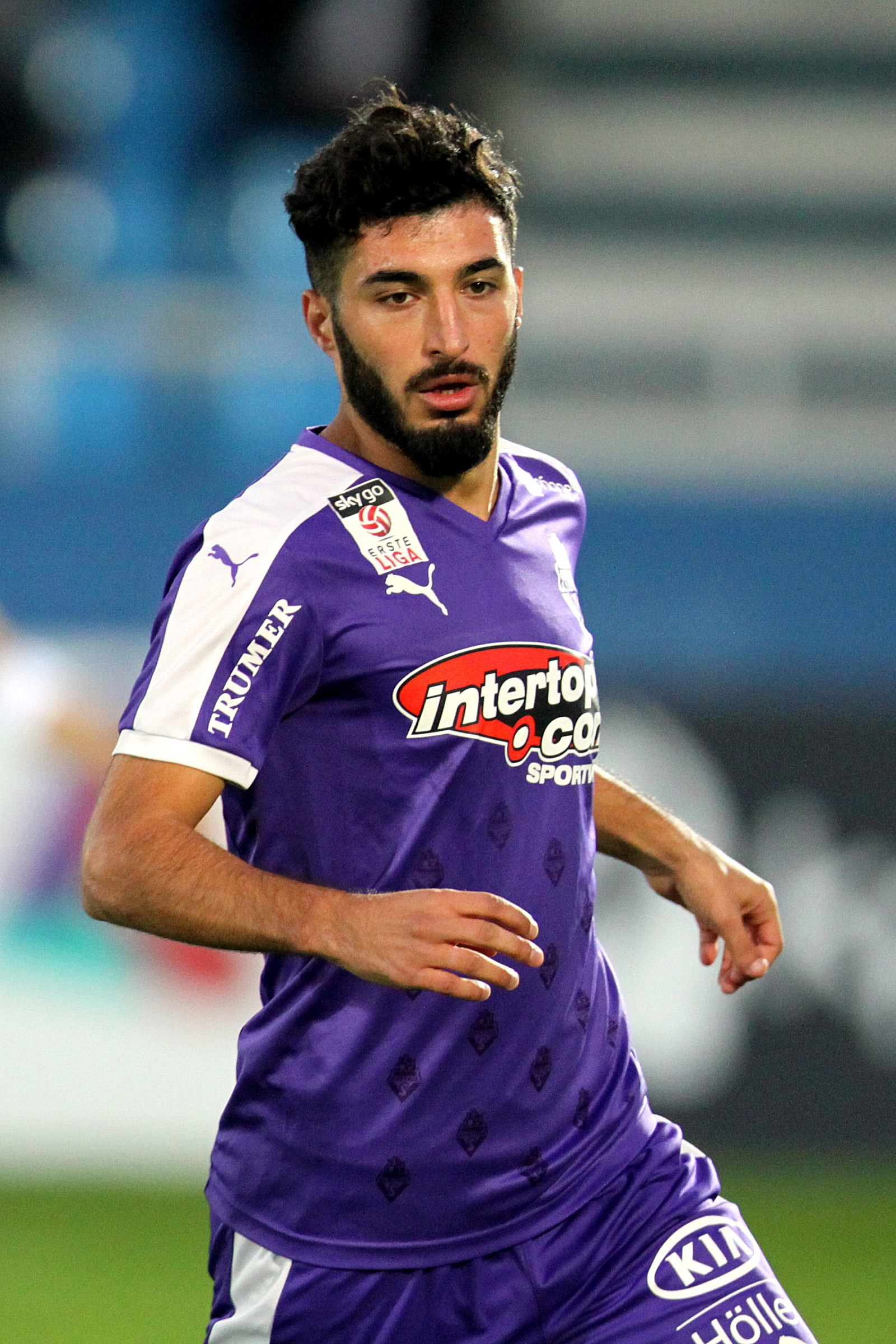 Match of the Erste Liga – SC Wiener Neustadt (blue/white shirts) vs. SV Austria Salzburg (purple shirts and black/white shirts) 2–0 (1–0) on 2015-10-02 in the Stadion in Wiener Neustadt – The photo shows Ibrahim Bingöl.